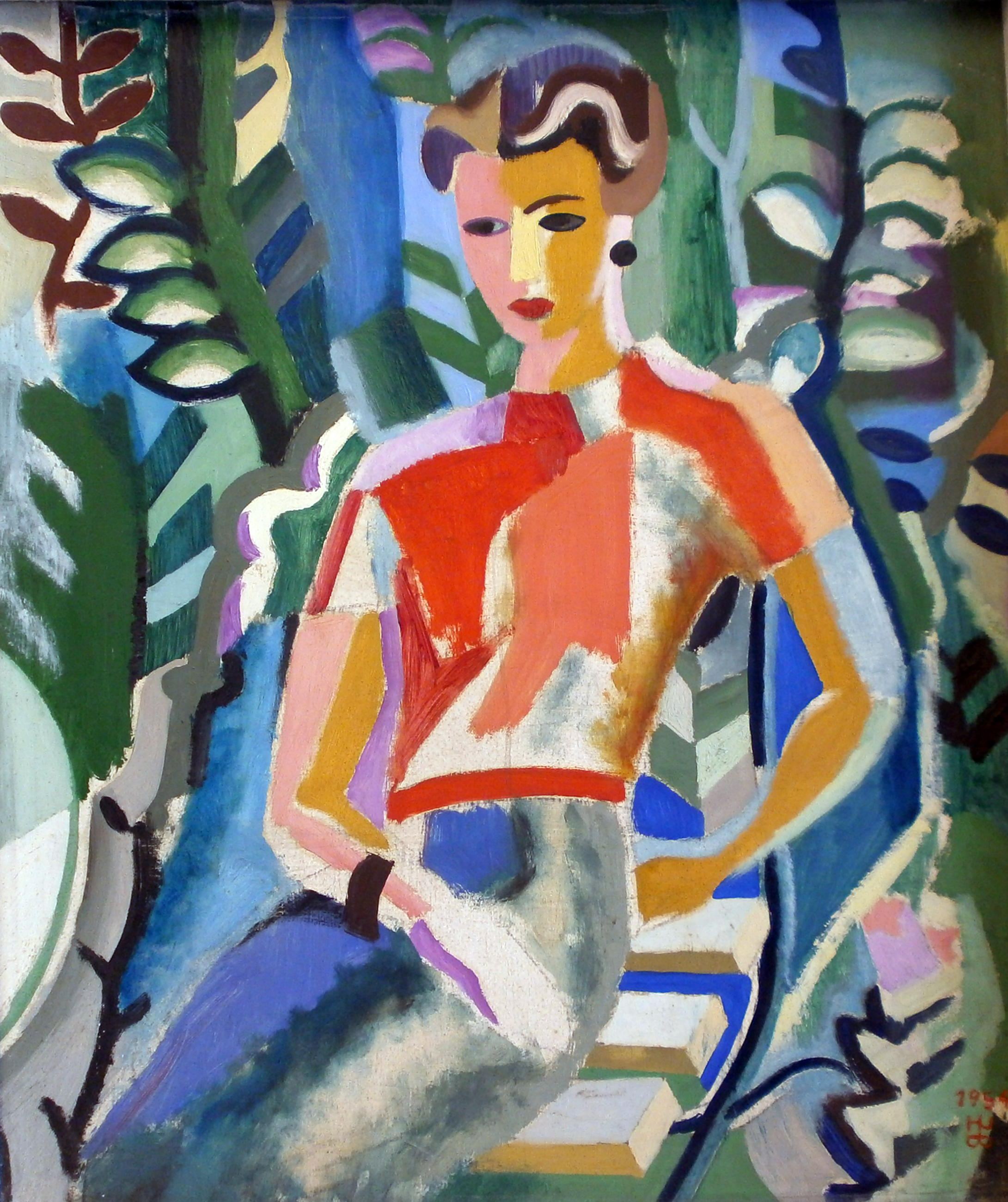 Elegant Lady with a red blouse